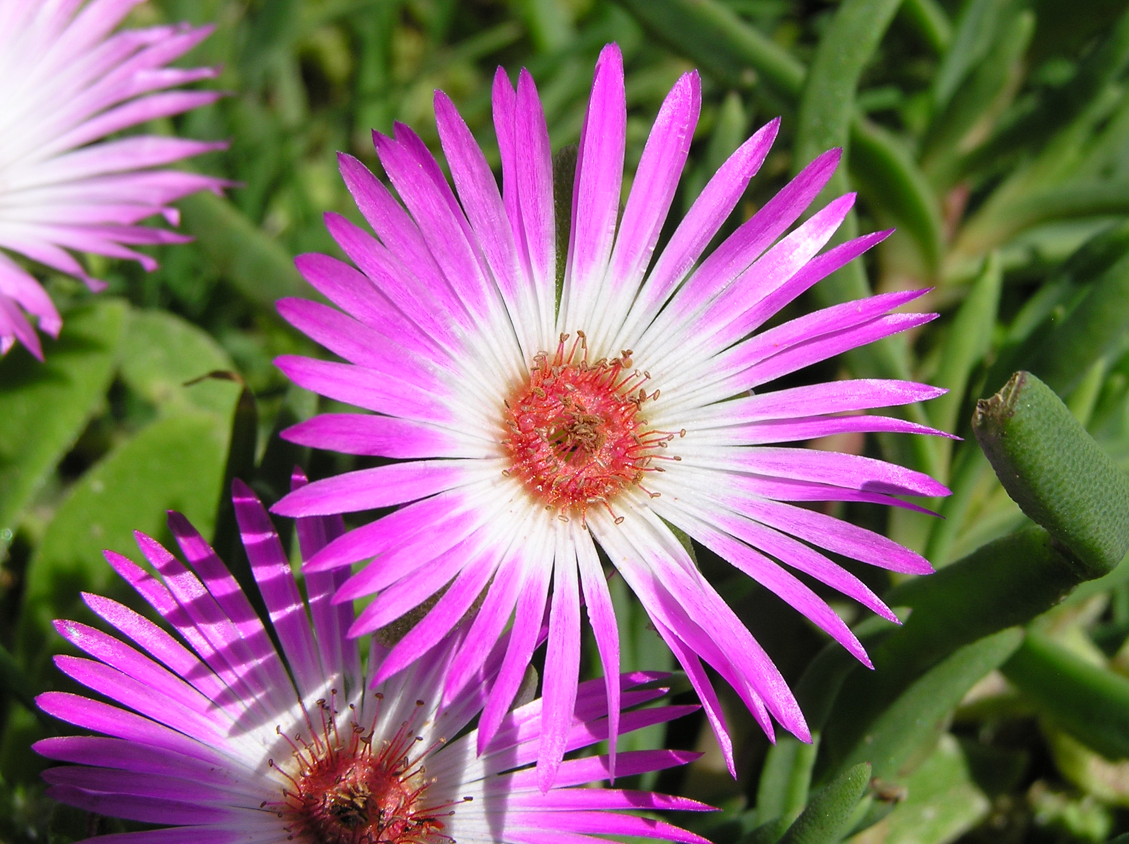 Buck Bay vygie, (Dorotheanthus bellidiformis (Burm.f) .), West Coast National park, Western Cape, South Africa